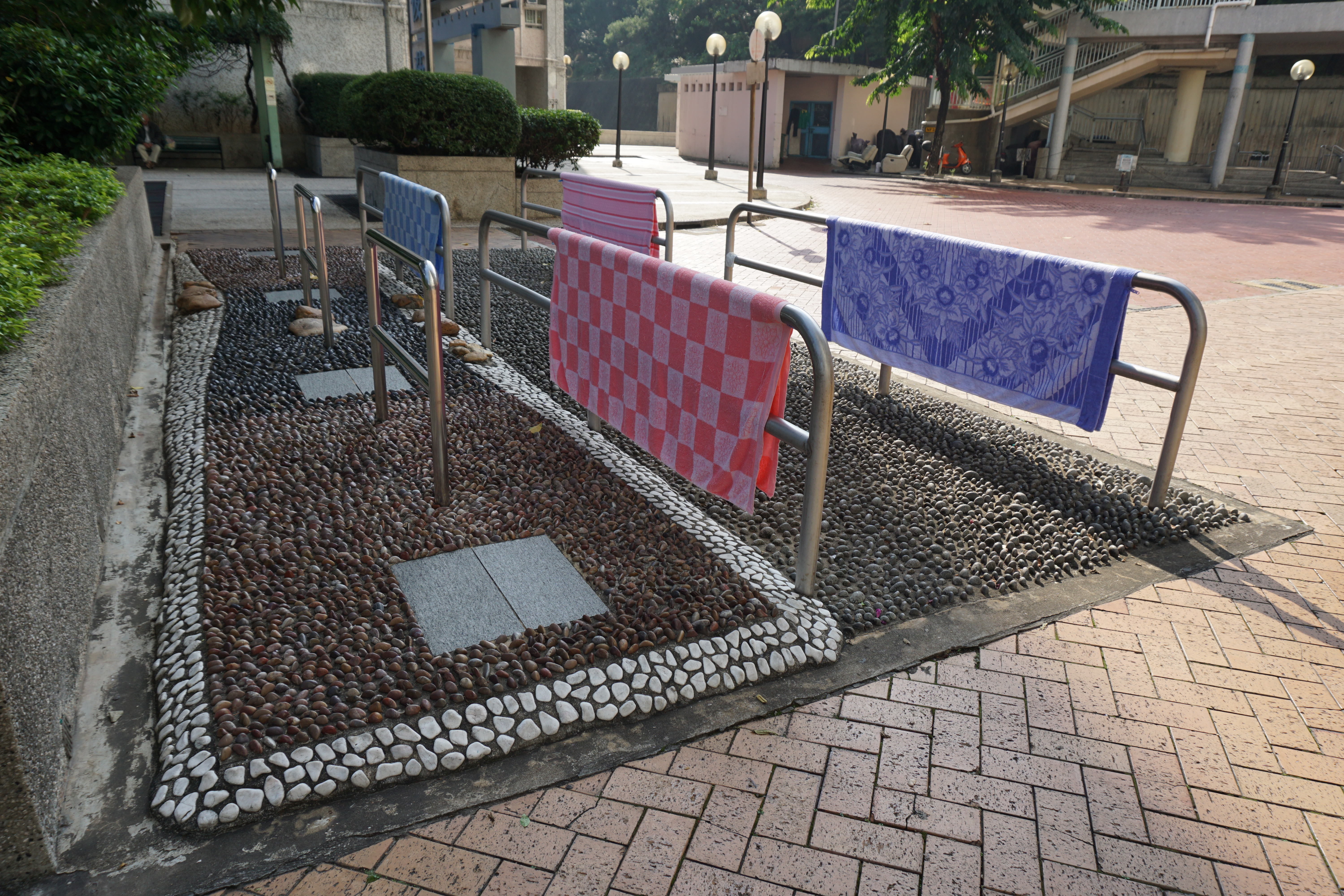 Kwai Hing Estate in Kwai Hing, Hong Kong.